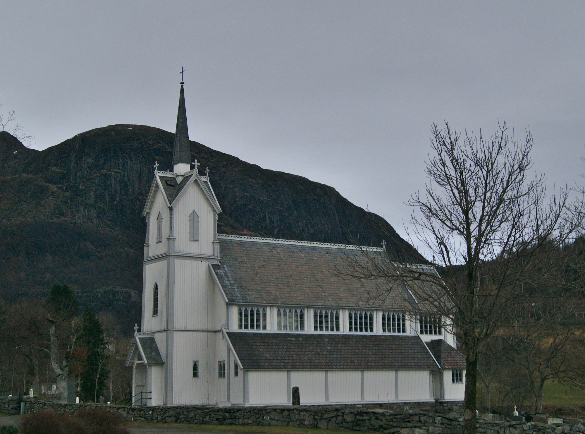 Holmedal church in Askvoll, Sogn og Fjordane, Norway, from 1911. Architect Christian Christie.